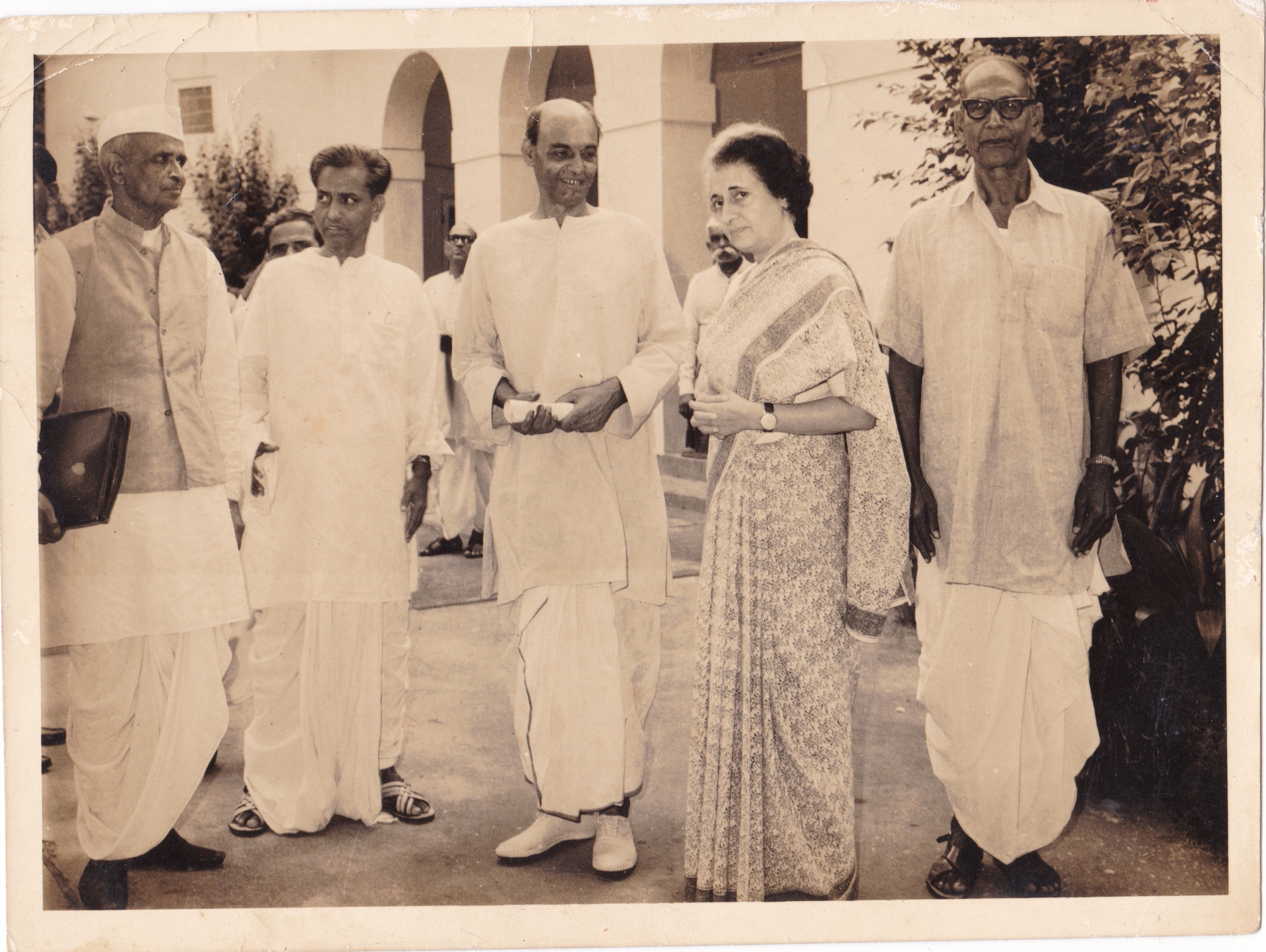 Panchanan Chakraborty with Indira Gandhi circa 1959.